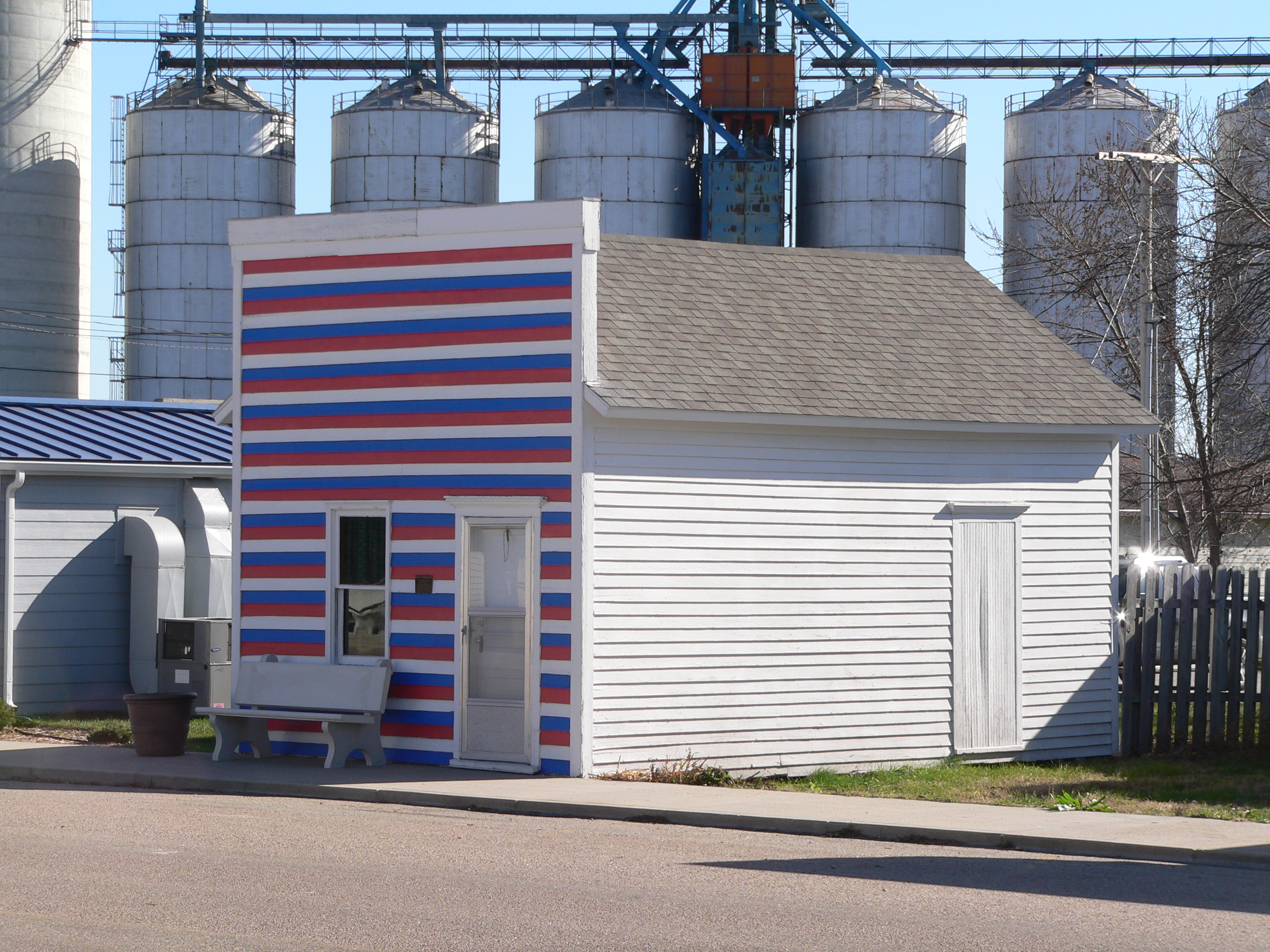 Cahow Barber Shop in Chapman, Nebraska, seen from the northwest. The false-front building was constructed in 1889, and is on the National Register of Historic Places.